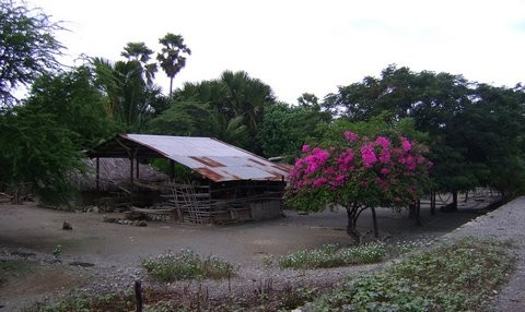 Bougainvillea in village of Obrato